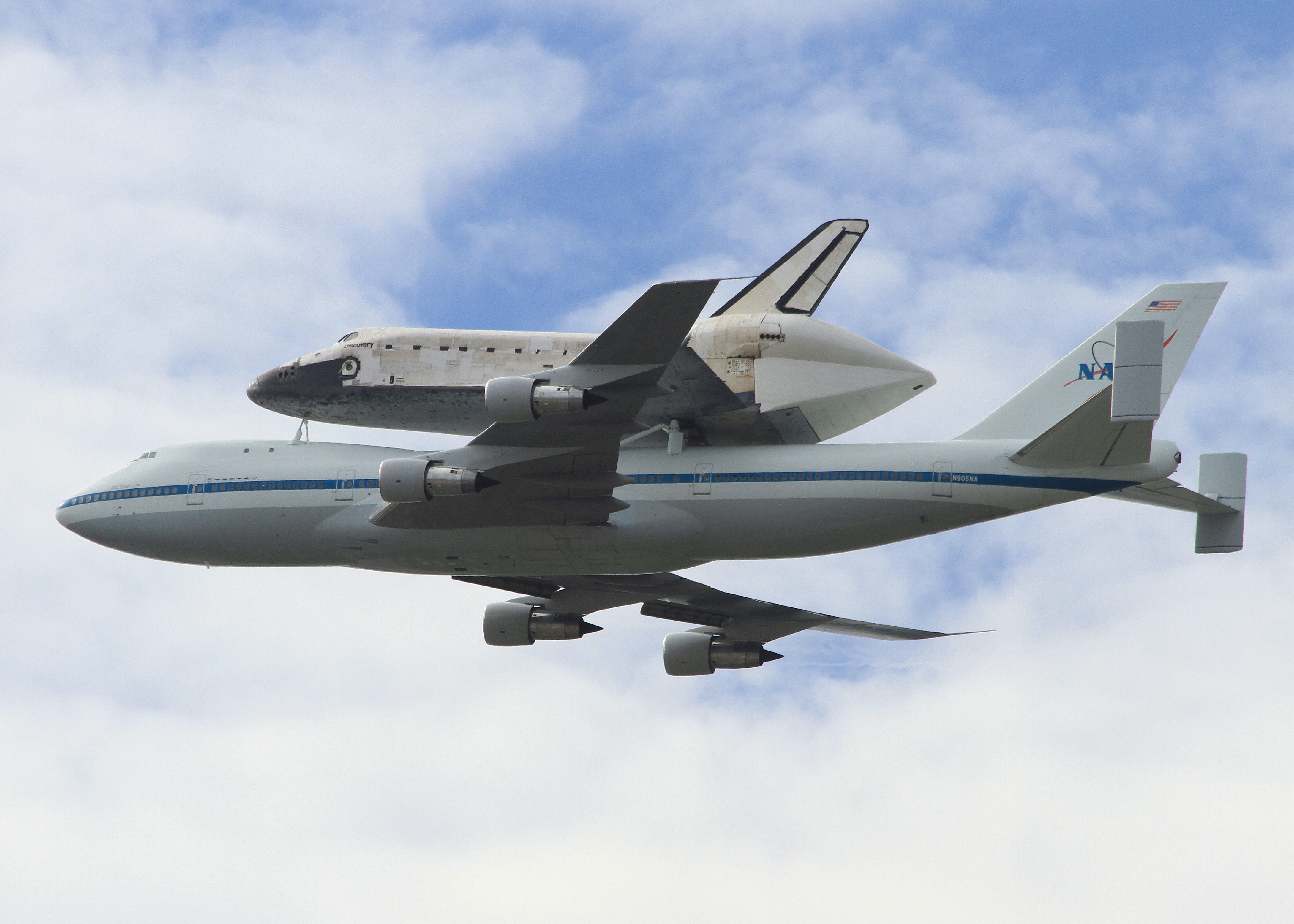 An image of Space Shuttle Discovery riding piggy-back on Shuttle Carrier Aircraft N905NA at about 1,500 feet (460 m) altitude during its flight to Washington Dulles International Airport on April 17, 2012. This image was taken during the last flyover of the National Mall at around 10:15 am EDT before its landing at Dulles at 11:05 am EDT (15:05 GMT).